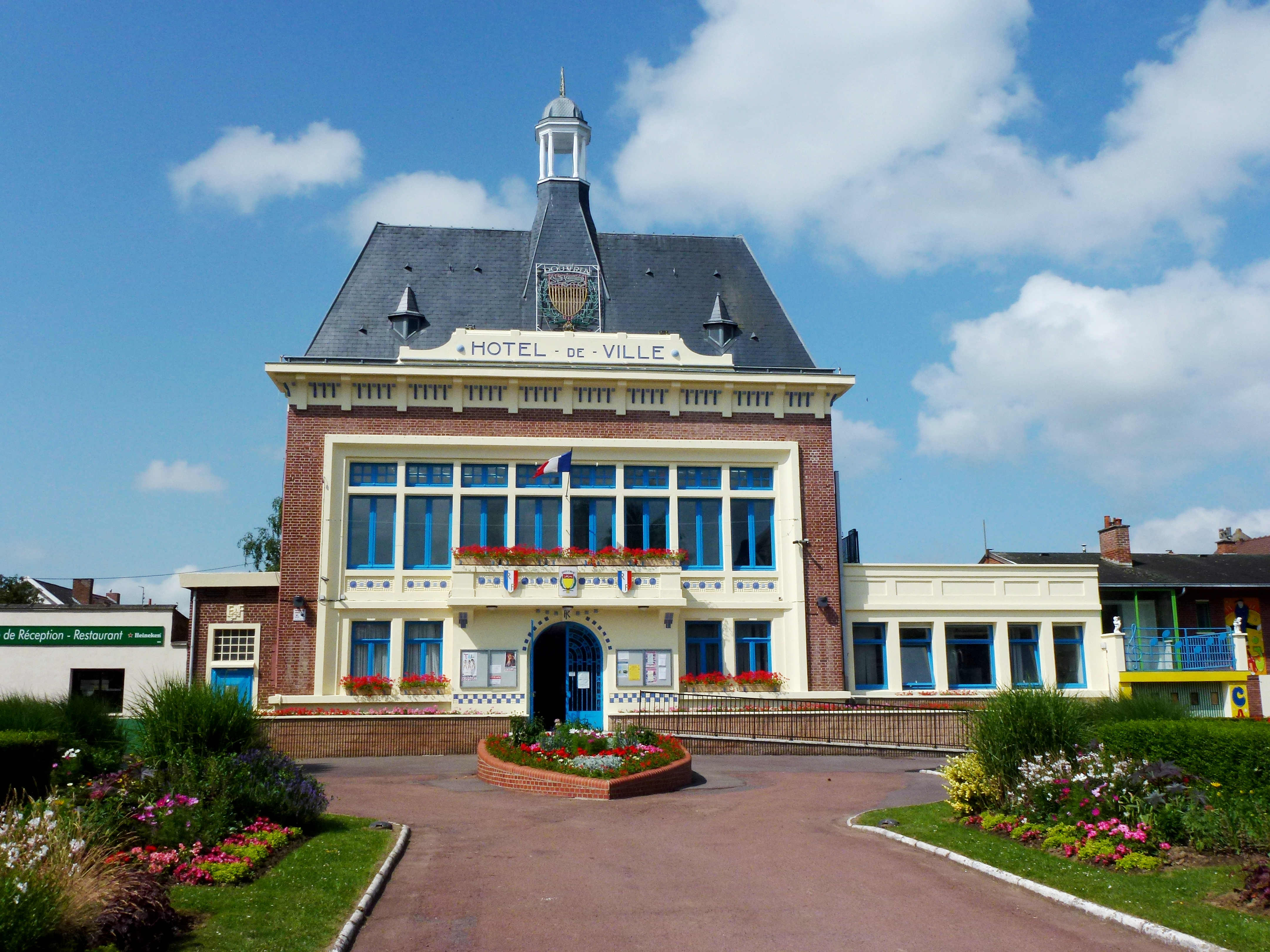 Douvrin (Pas-de-Calais, Fr) mairie